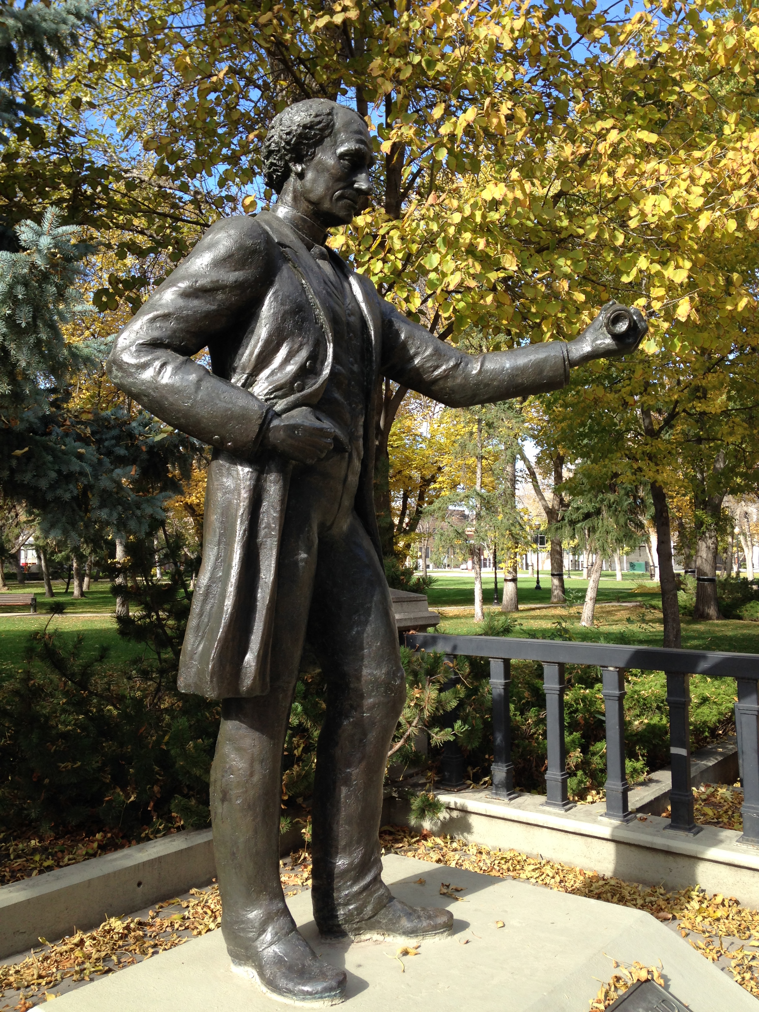 Statue of Sir John A. Macdonald, Victoria Park, Regina, Saskatchewan